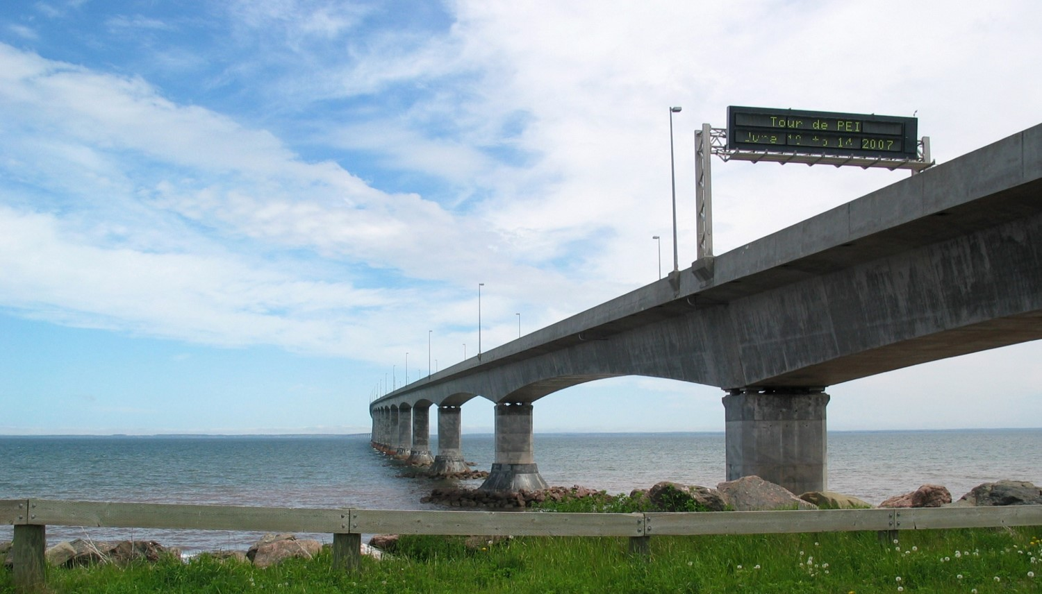 View from beneath the Confederation Bridge.